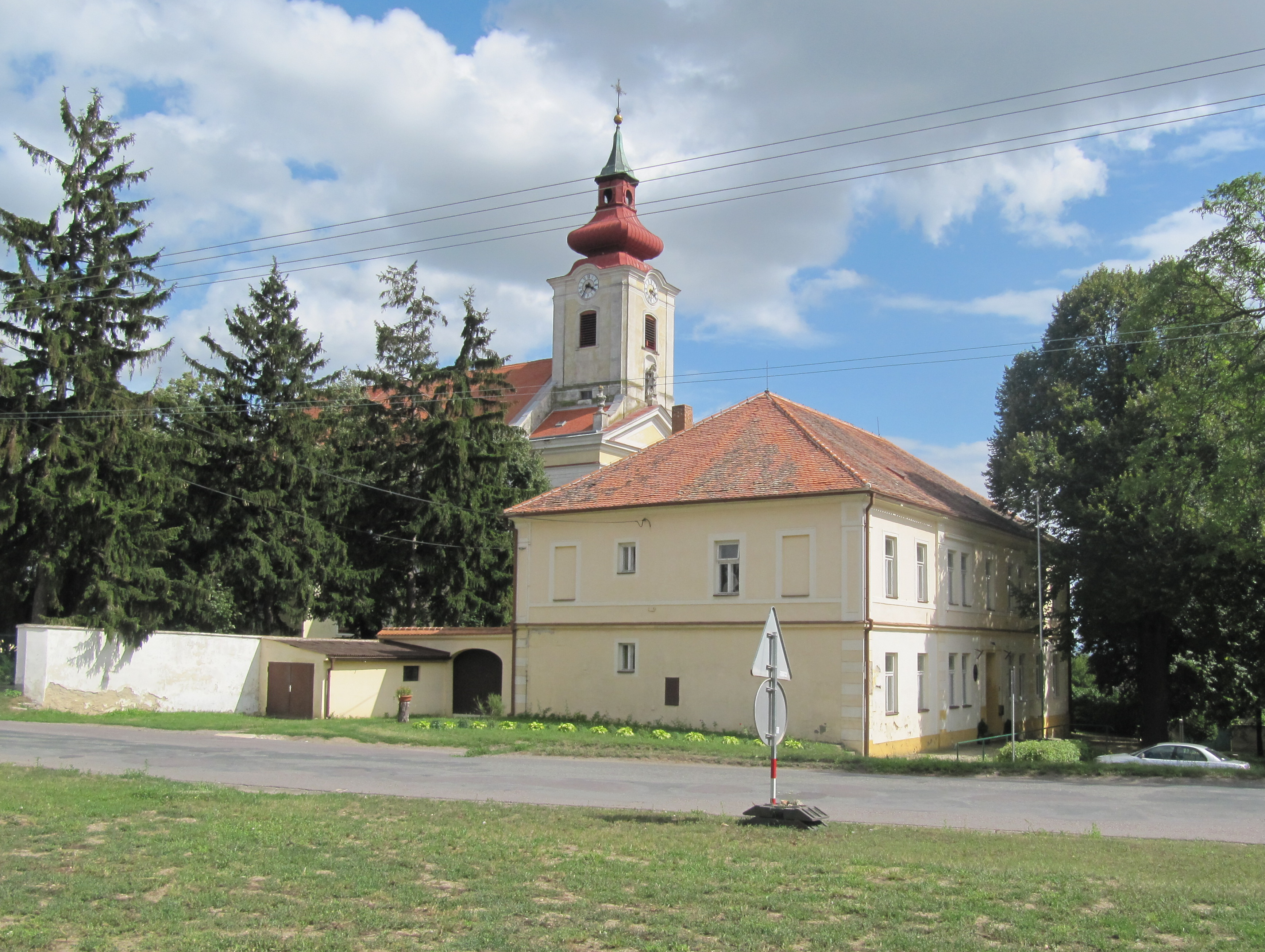 Dyjákovice in Znojmo District, Czech Republic. Center of the village with the church of St. Michael the Archangel and the municipal office.